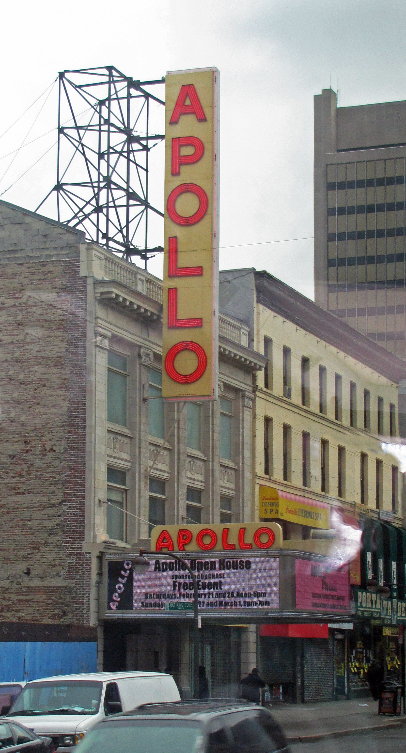 The Apollo Theater in Harlem, New York City